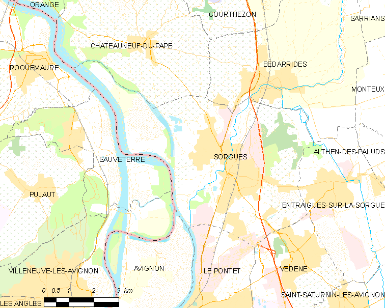 Map of French municipality Sorgues